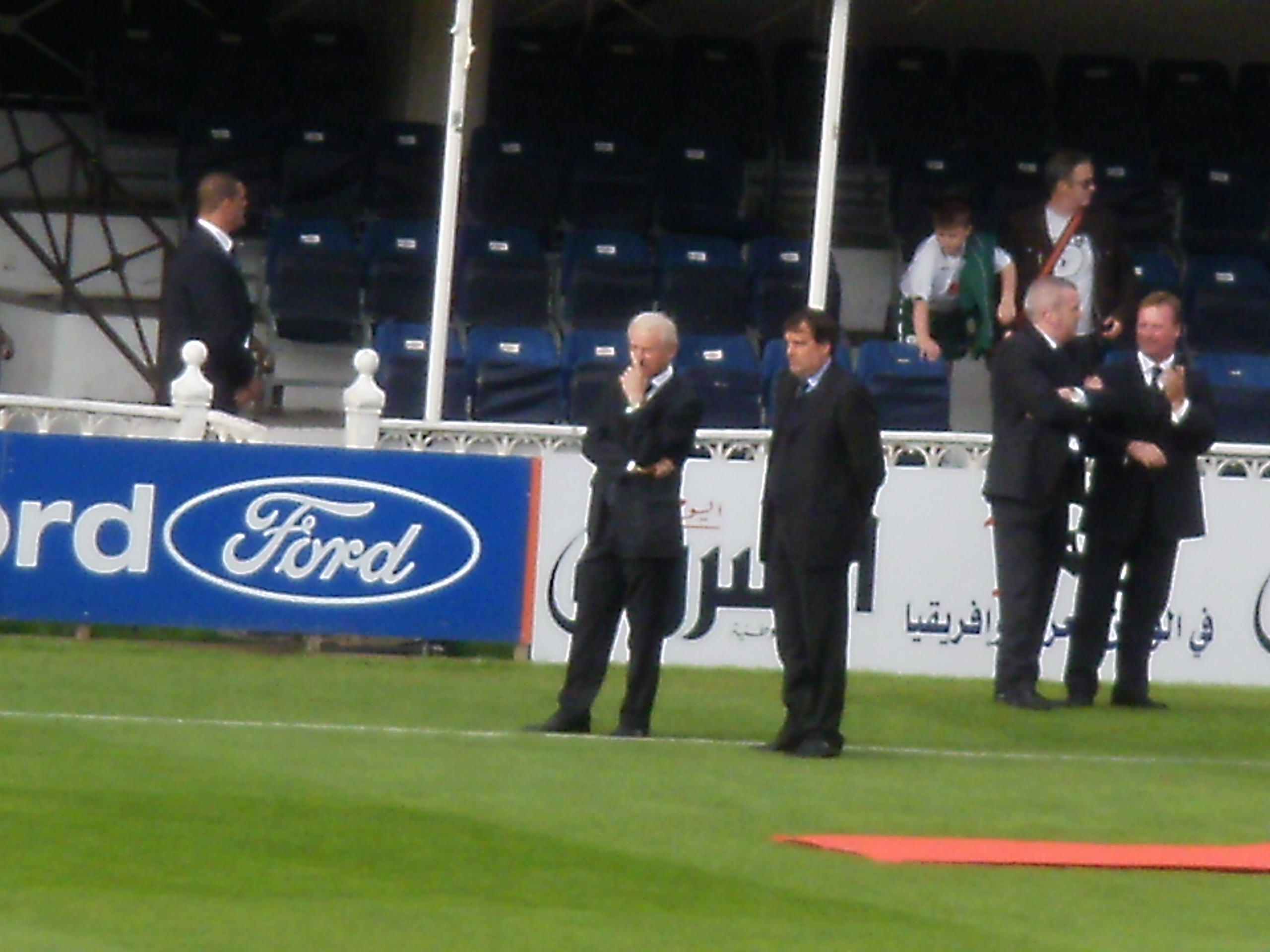 Giovanni Trapattoni and Marco Tardelli